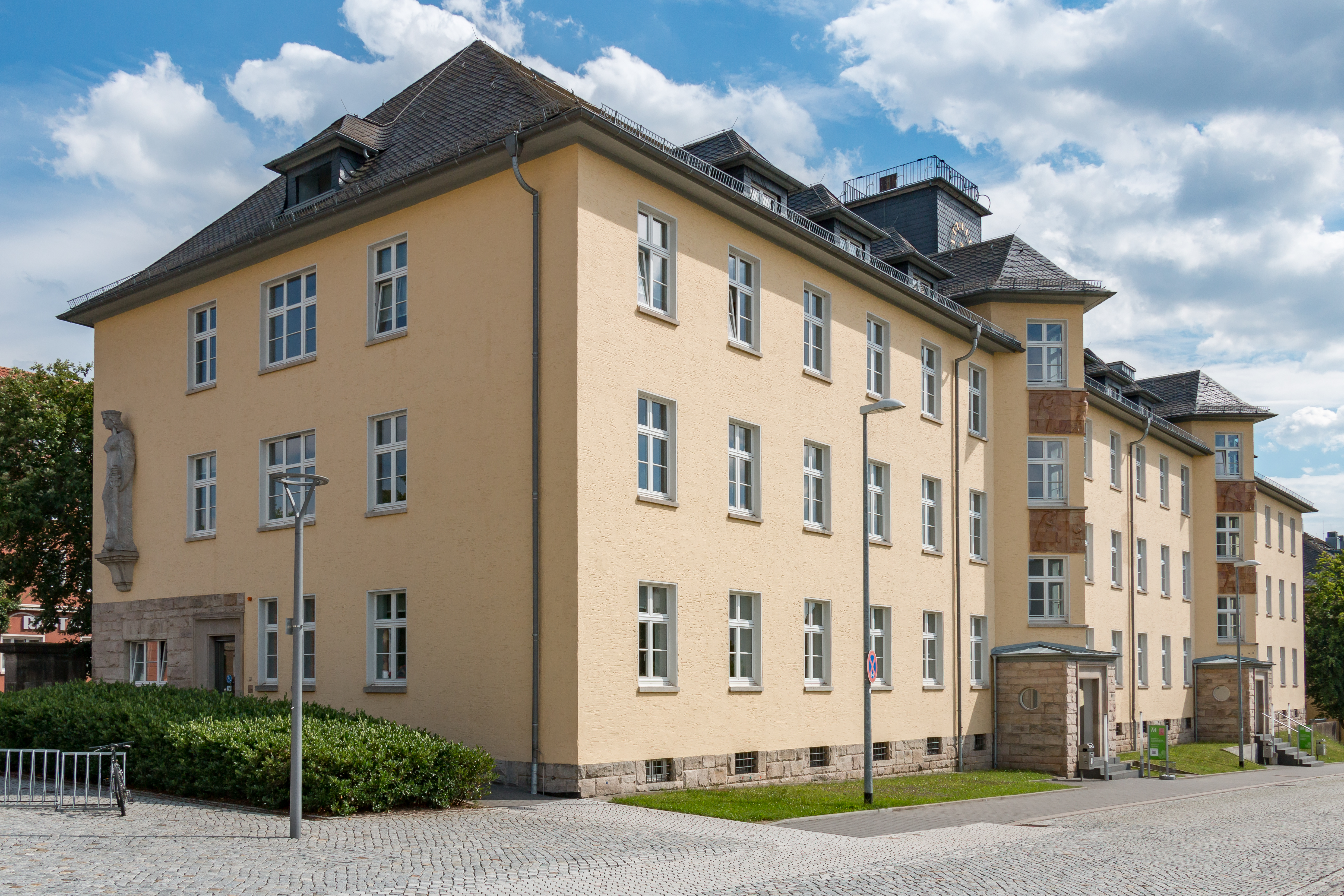 Building 33 on the campus of the Fulda University of Applied Sciences